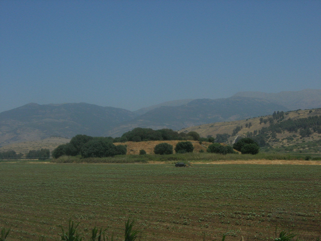 Tel Anaffa, north-east Hula Valley, with mount Hermon in the background